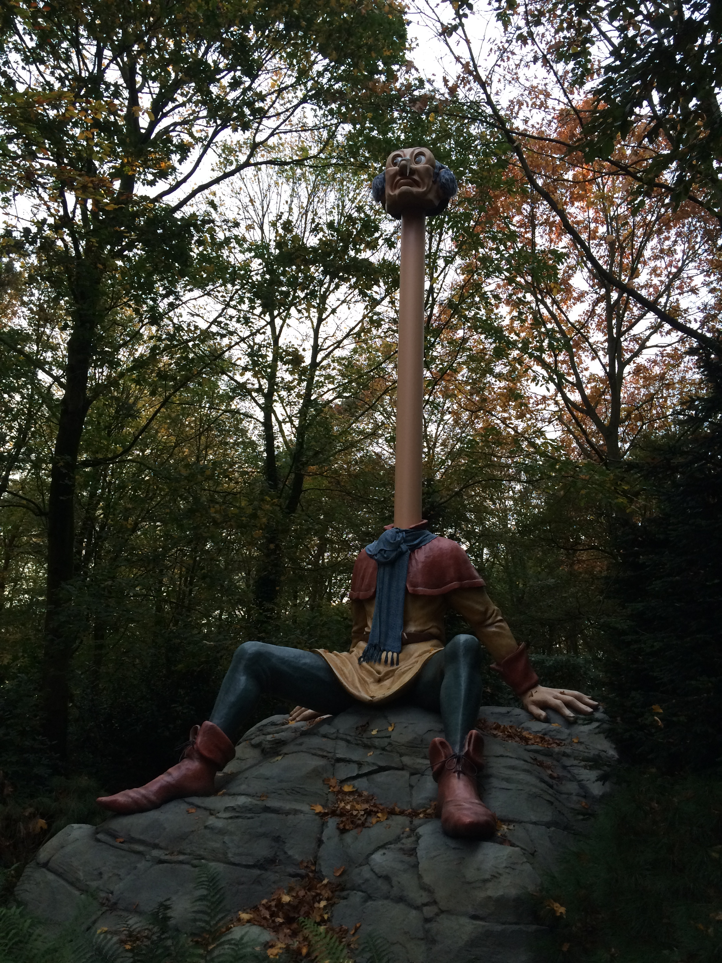 Langnek met gestrekte nek.